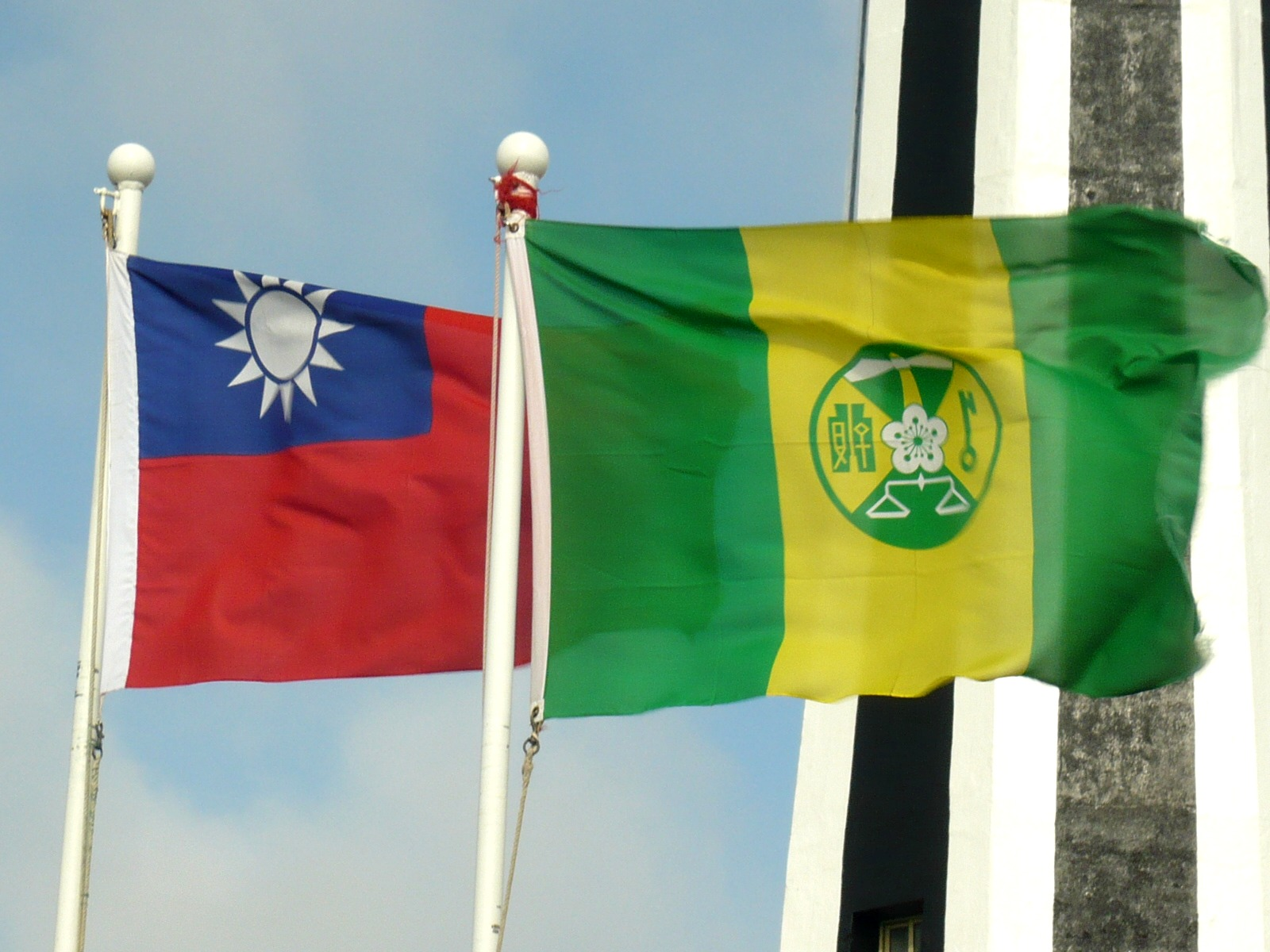 The national flag and customs flag of the Republic of China at Fangyuan Lighthouse.